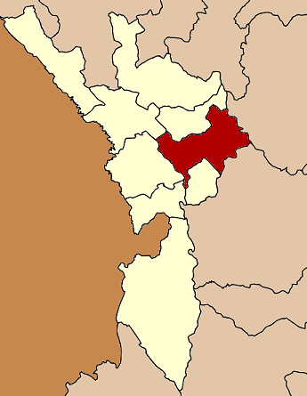 Map of Tak province, Thailand, highlighting Amphoe Mueang Tak.